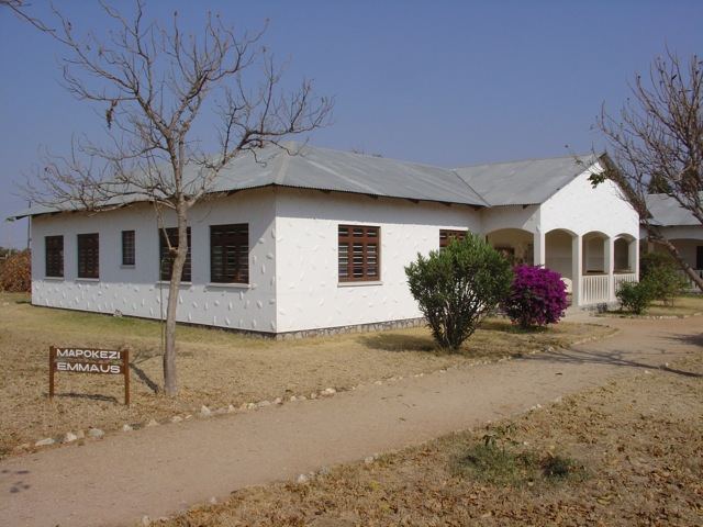 Emmaus Offices in Dodoma / Tanzania.